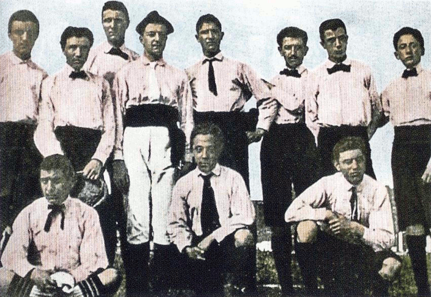 The first Juventus FC team.